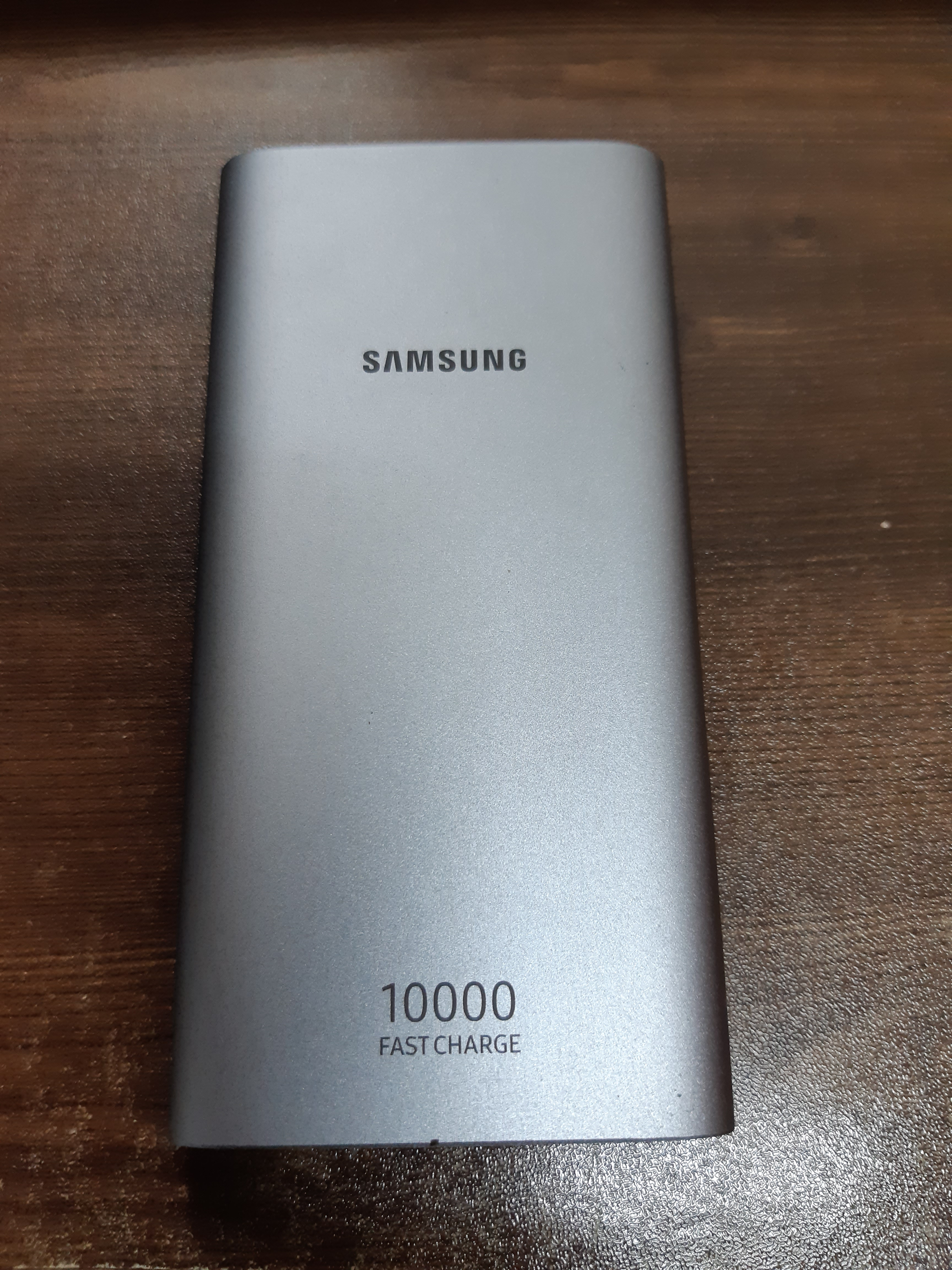 Samsung Battery Charger 10000